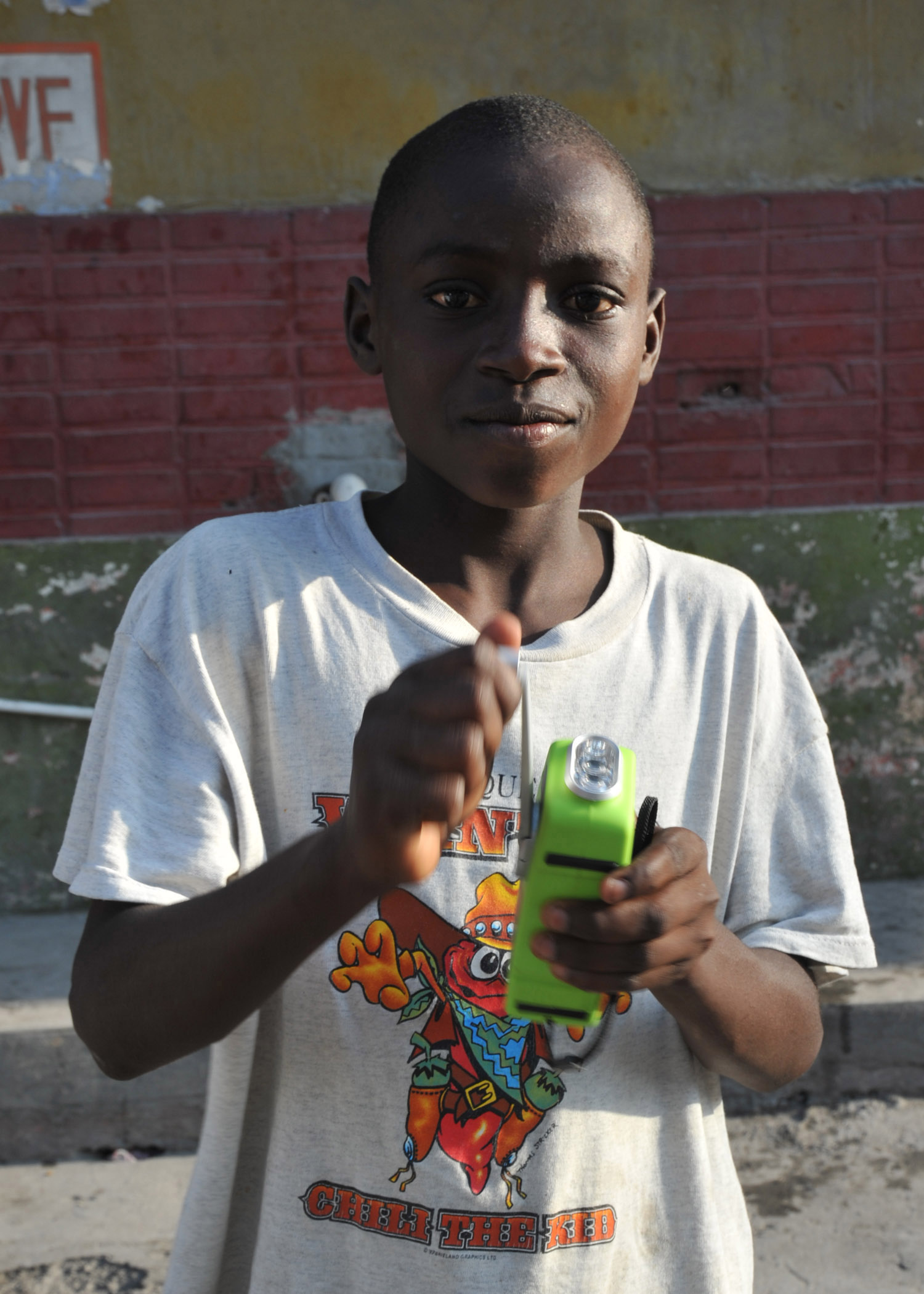 PORT-AU-PRINCE, Haiti (Jan. 24, 2010) A Haitian child uses the hand crank on his multi-purpose self-powered radio. Joint Task Force Haiti is distributing multi-purpose self-powered radios for affected citizens to receive news and important information concerning international relief efforts and food and water distribution. Turning the crank operates an internal electric generator, charging a battery which powers the radio. (U.S. Navy photo by Chief Mass Communication Specialist Robert J. Fluegel/Released)